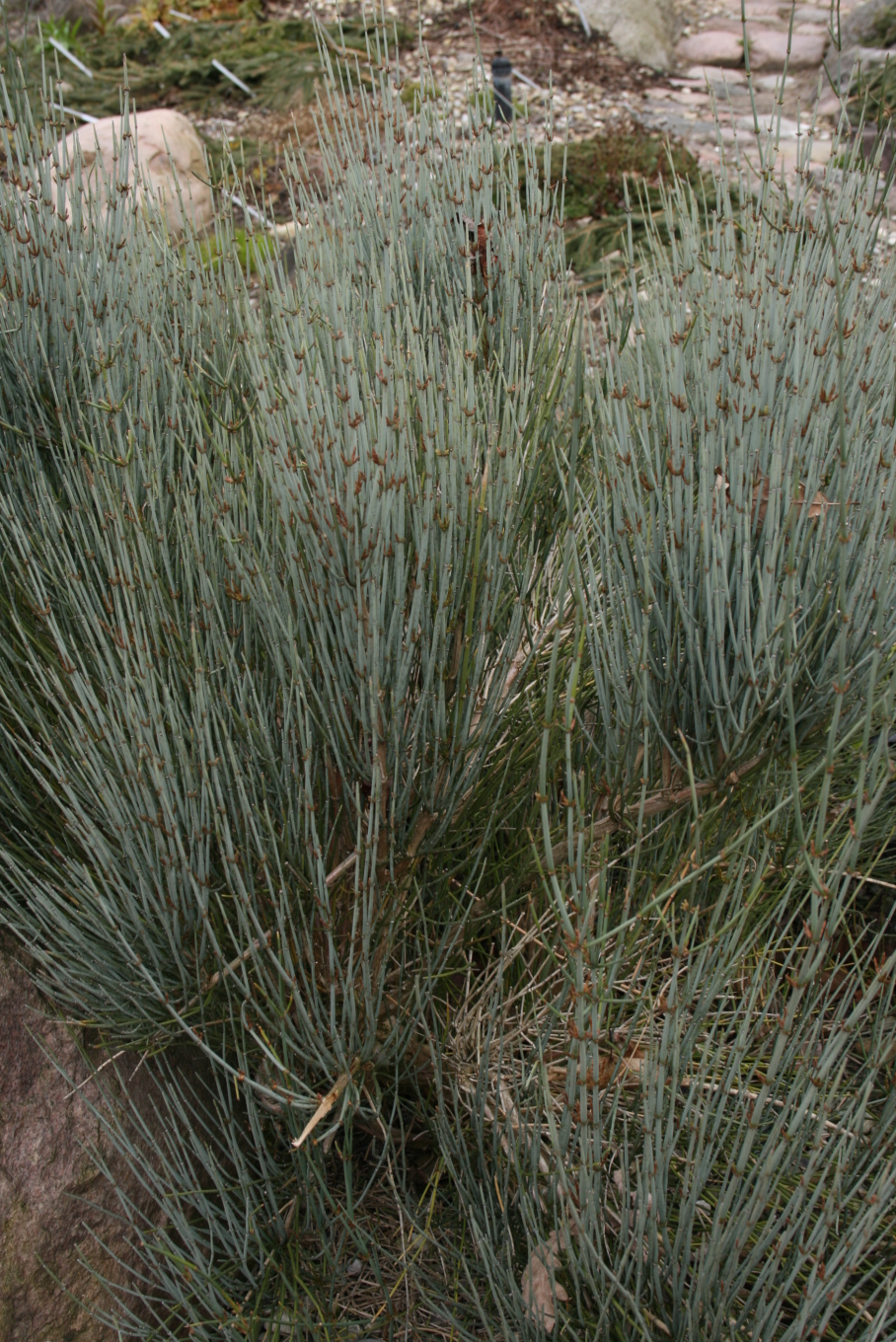 Ephedra intermedia: Habitus.